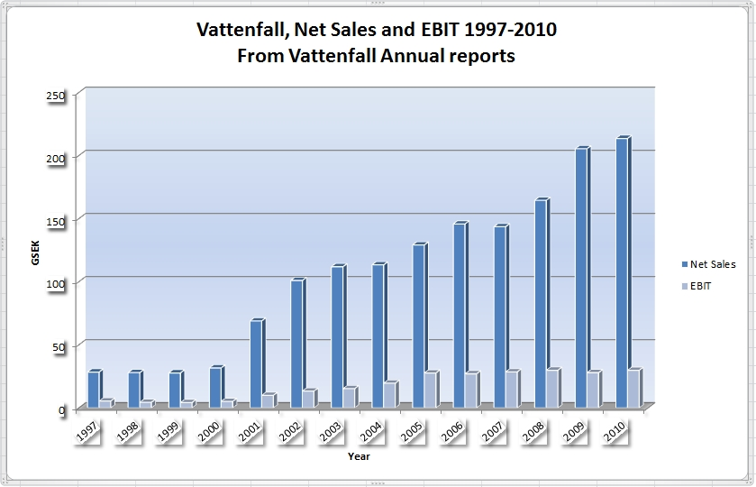 Net Sales and EBIT for Vattenfall AB, Sweden, 1997-2010